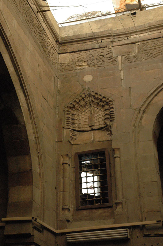 Mosque of Taghribardi. Cairo, Egypt